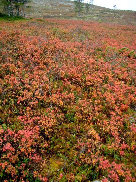 Fall colors in Lapland